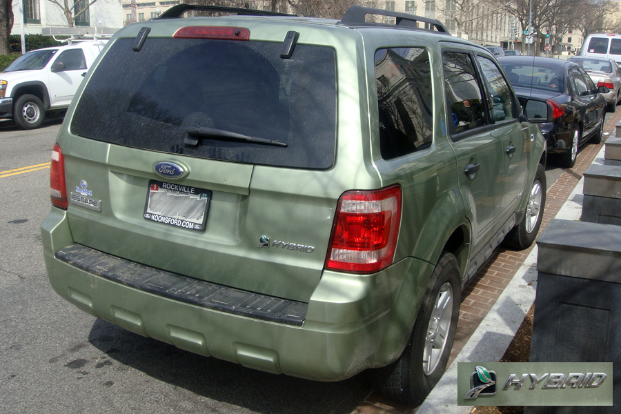 Ford Escape Hybrid with zoom in Hybrid badge, Washington, D.C.